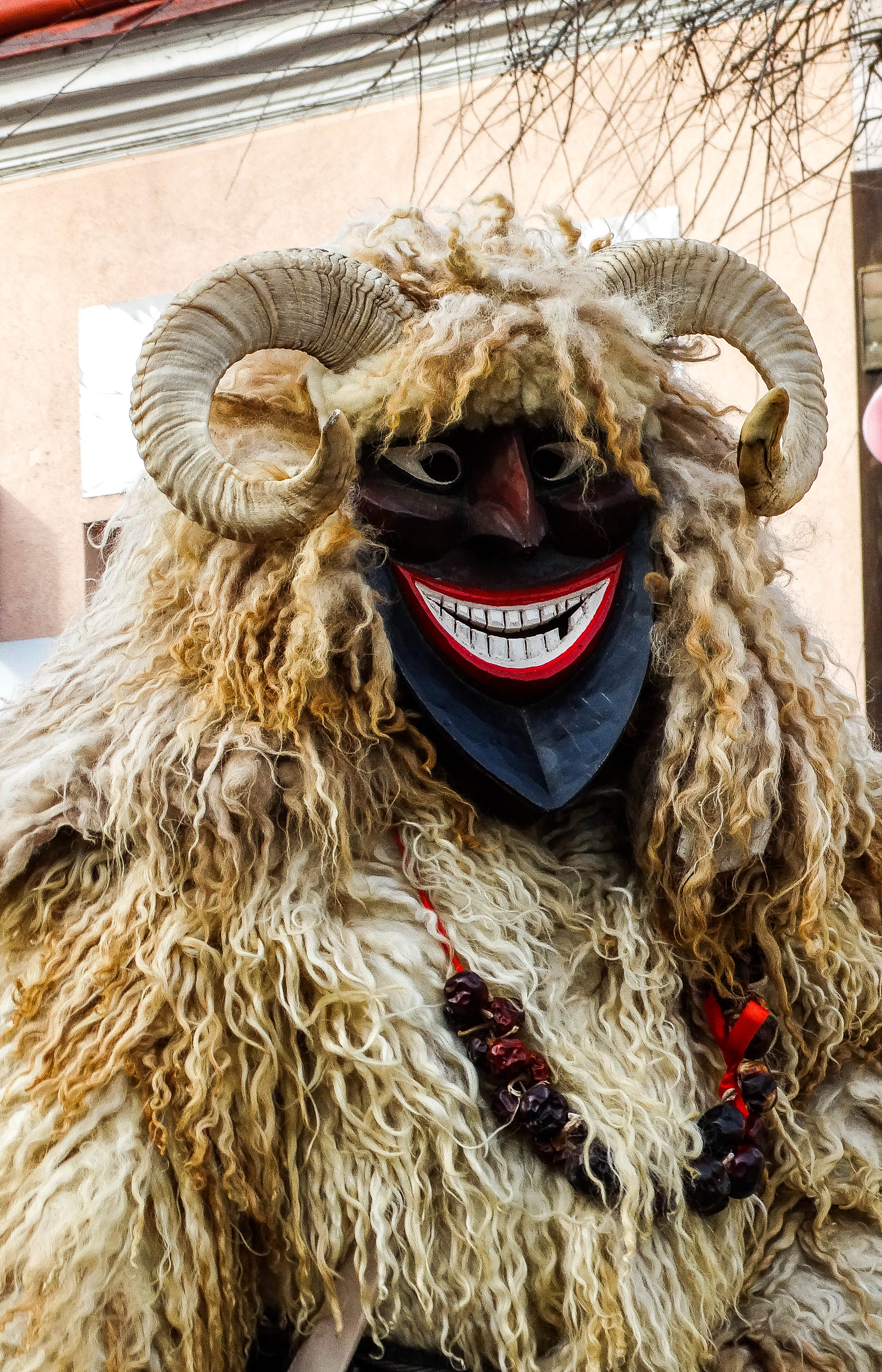 This photo has been taken in the country: Hungary